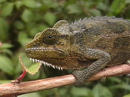 Chameleon in central Kenya, probably a Chamaeleo hoehnelii